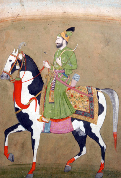 Guru Gobind Singh, the Tenth Guru, Opaque watercolor on paper, Government Museum and Art Gallery, Chandigarh